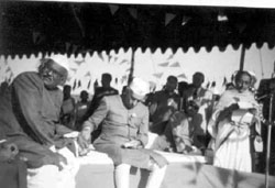 Durga Bhabhi delivering a Welcome speech at her school in lucknow, Sitting Jwahar lal nehru